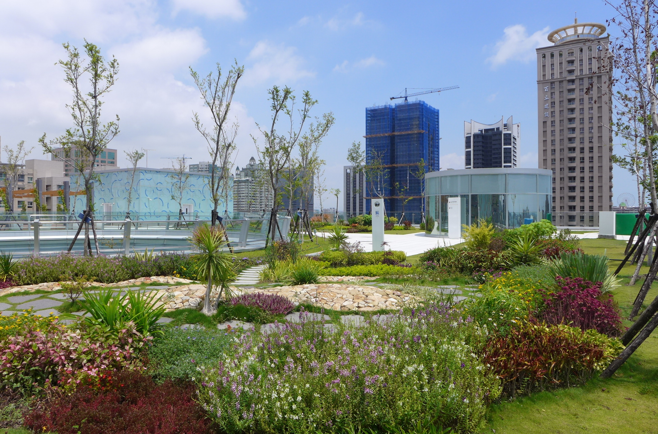 Kaohsiung Main Library Roof Garden